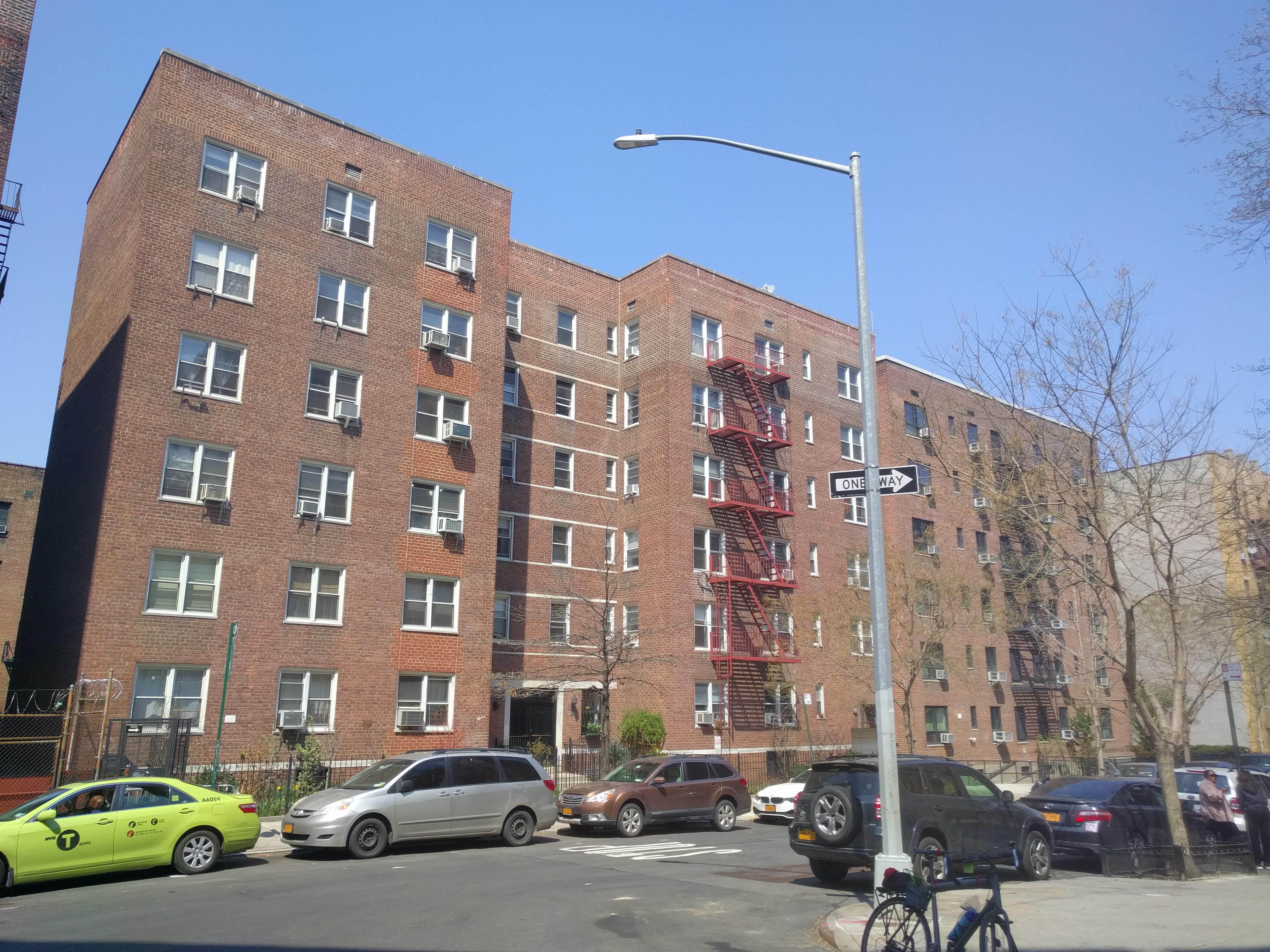 Looking north across Hillside Avenue at west end of Bogardus Place on a sunny midday